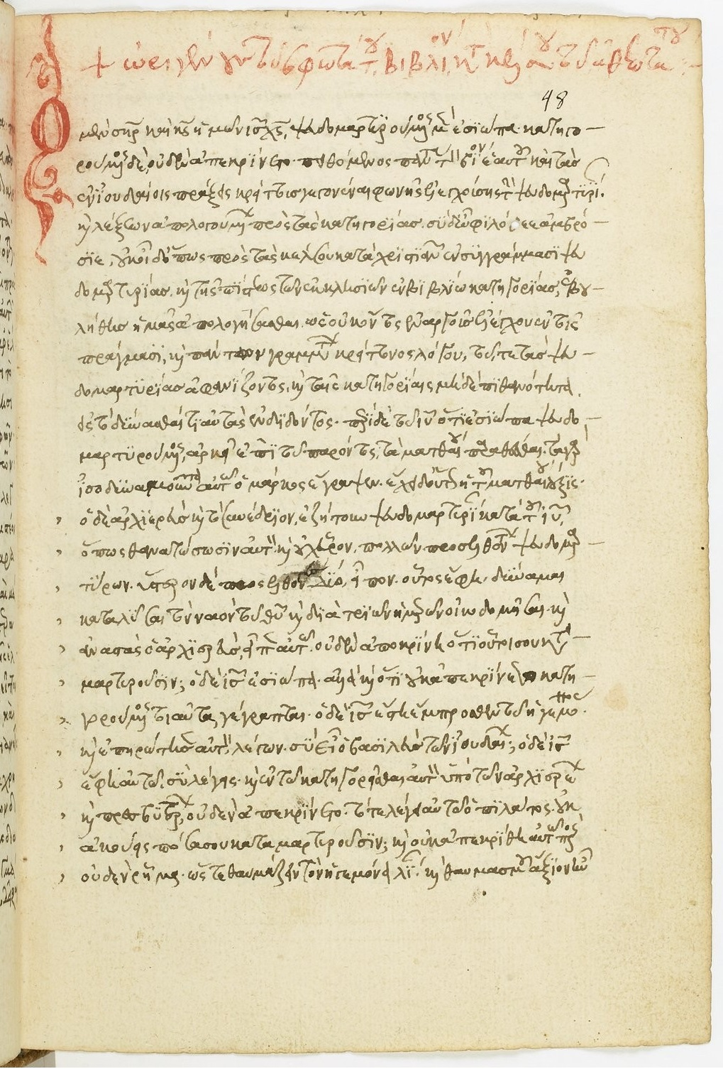 ORIGENES (Adamantius). Adversus Celsum libri VIII. Manuscript Grec 945 (15th century).